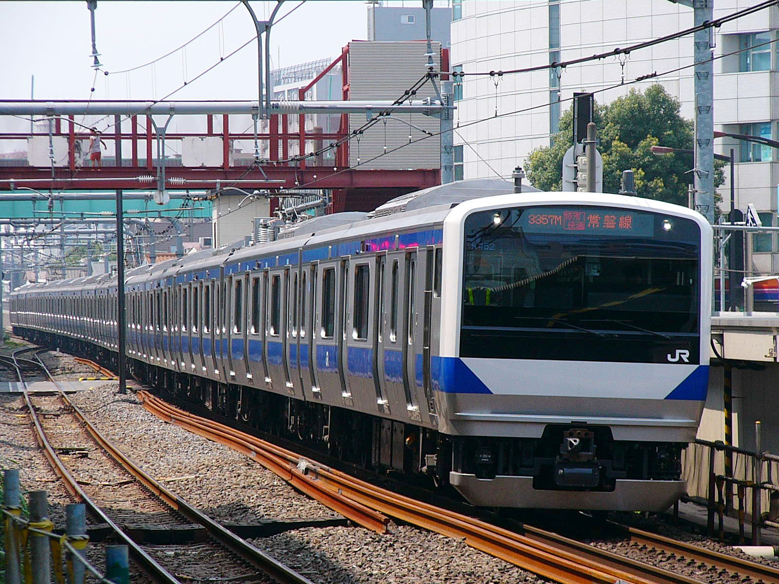 JR East E531 series EMU set K452